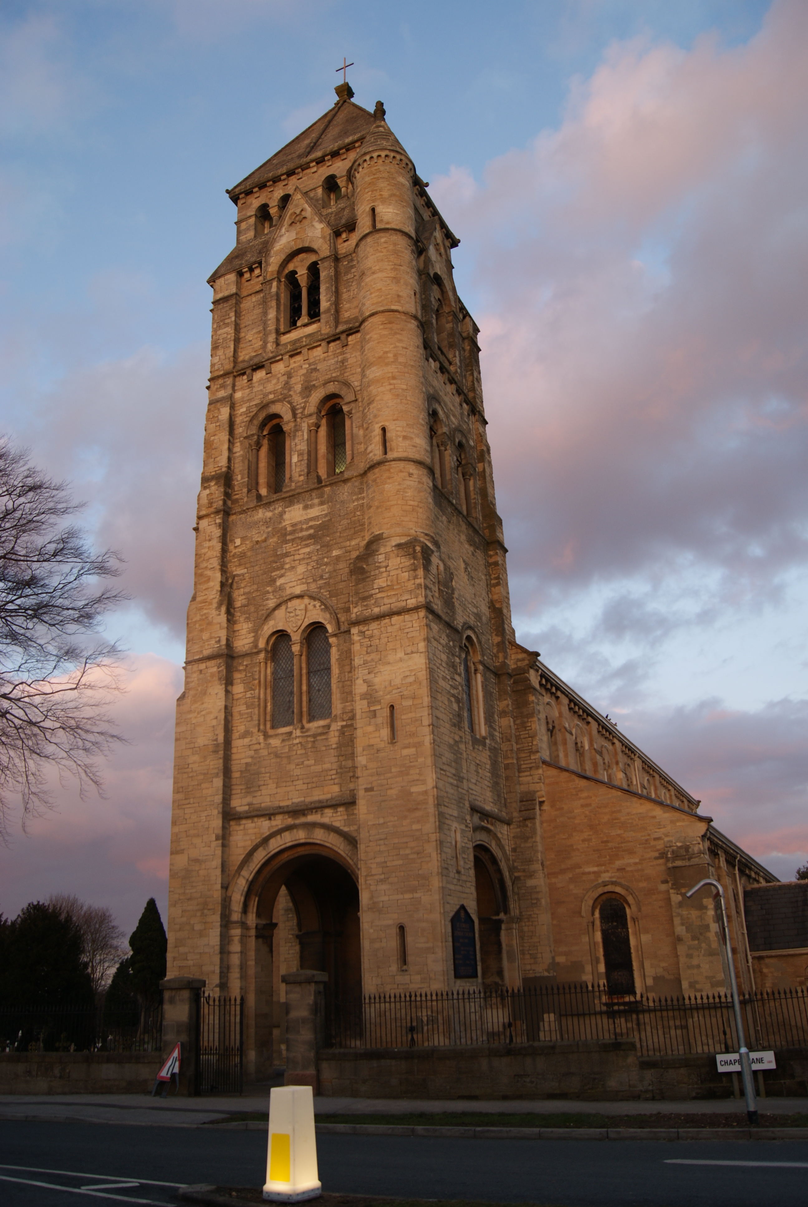 St Edward King and Confessor Catholic Church, Clifford, West Yorkshire. Focusing in on the tower from Chapel Lane. Taken around early evening on Monday the 1st of March 2010.